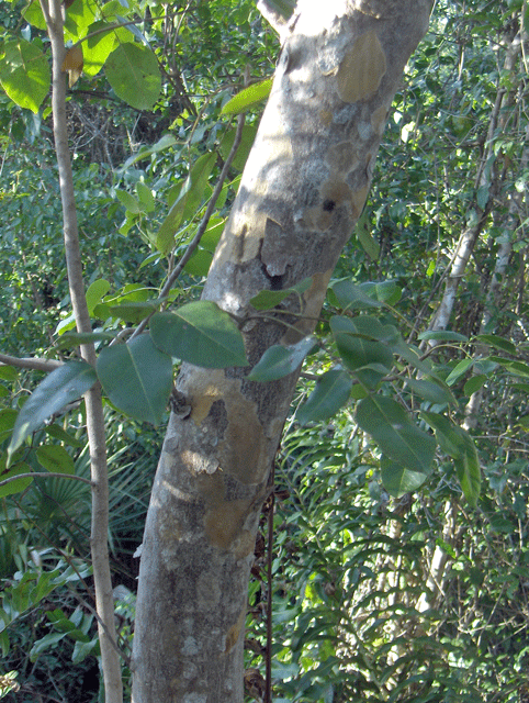 Found in Everglades National Park